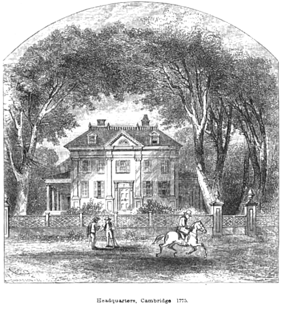 Engraving labeled as George Washington's "Headquarters, Cambridge 1775" - a building which later became the home of poet Henry Wadsworth Longfellow, now known as the Longfellow National Historic Site. Image from Homes of American Statesmen: With Anecdotical, Personal, and Descriptive Sketches, by Caroline M. Kirkland, Charles F. Briggs, Parke Godwin, Richard Hildreth, Edward William Johnston. Published by G. P. Putnam and co., 1854.